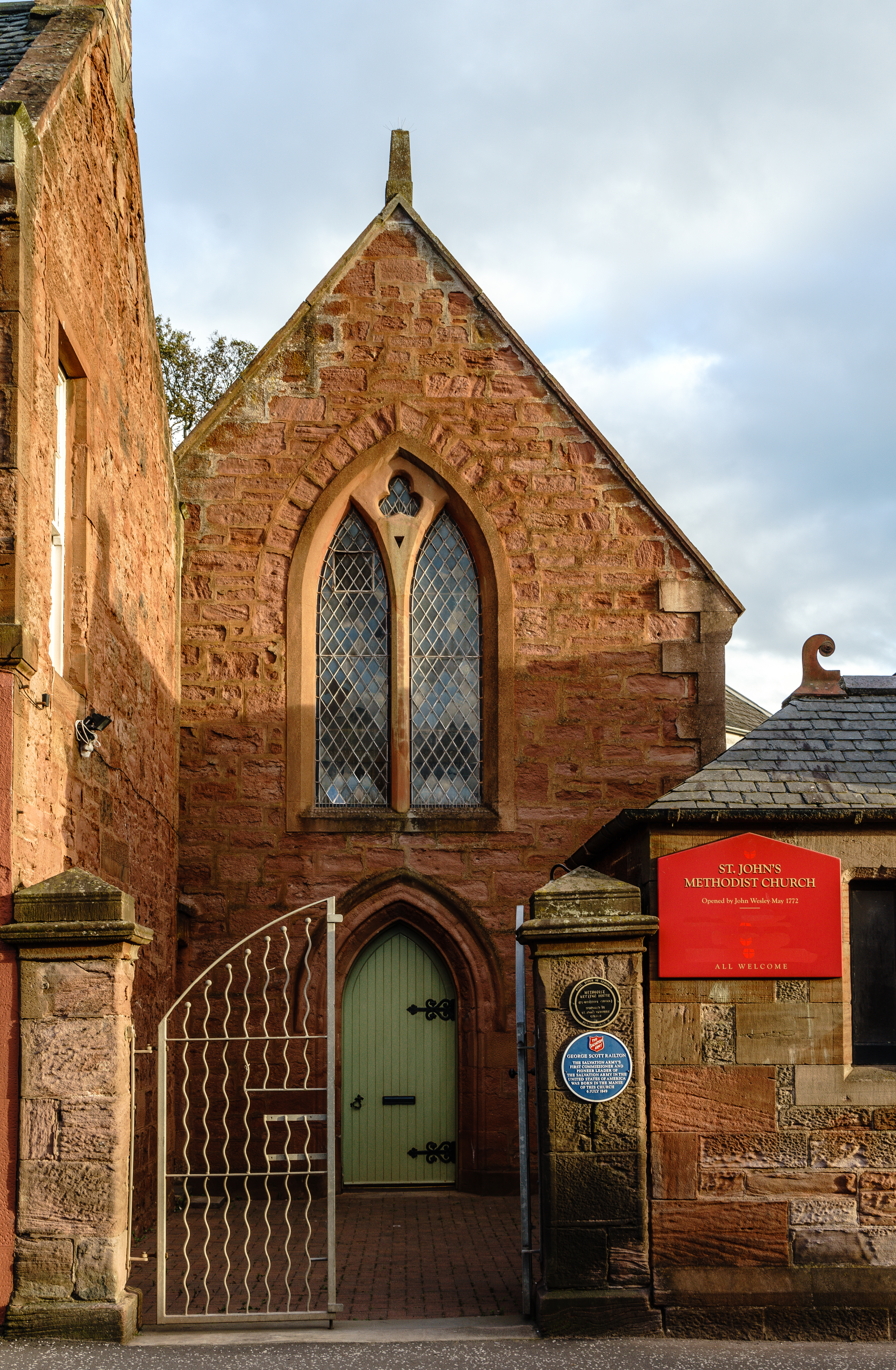 St. John's Methodist Church, Arbroath Wikidata has entry Q7588791 with data related to this item.